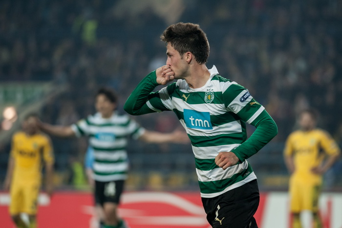 Dutch football player Ricky van Wolfswinkel ilov as playing for Sporting Lisbon against Metalist Kharkiv